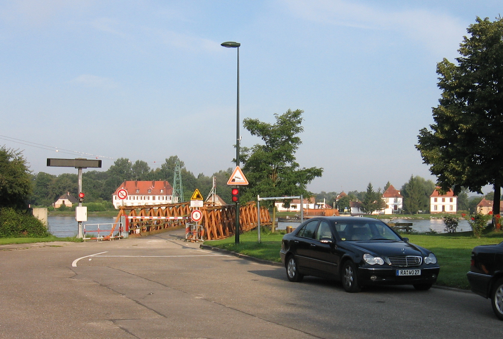 Rhein - Plittersdorf, Rastatt